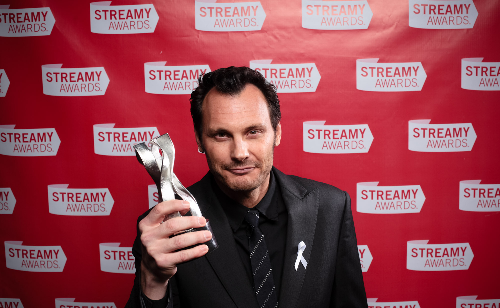 Thanks for viewing the official Streamy Awards photos! The exclusive photos of the winners and presenters are here. You don't want to miss those! We could not have done this without our awesome team of associate photographers: Bonny Pierzina Gabriel Ryan Laura Kearse Joe Philipson Kevin Calumpit Luis Miguel Munoz-Najar Actually, without our production team we could not have done this either: Josh Allard Megan Chrisofferson Mark Bealo Scott Kearse Thanks so much everyone for your hard work, and thanks so much Streamy Awards for using us again for the official photography! Please feel free to use these photos under a Creative Commons Attribution license (which means you may use the photos as long as you attribute the photos to and provide a link back to ) You can learn more about the Sreamy Awards by visiting Also, you can learn more about these photos by visiting our website with our favorite Streamy Awards photos.